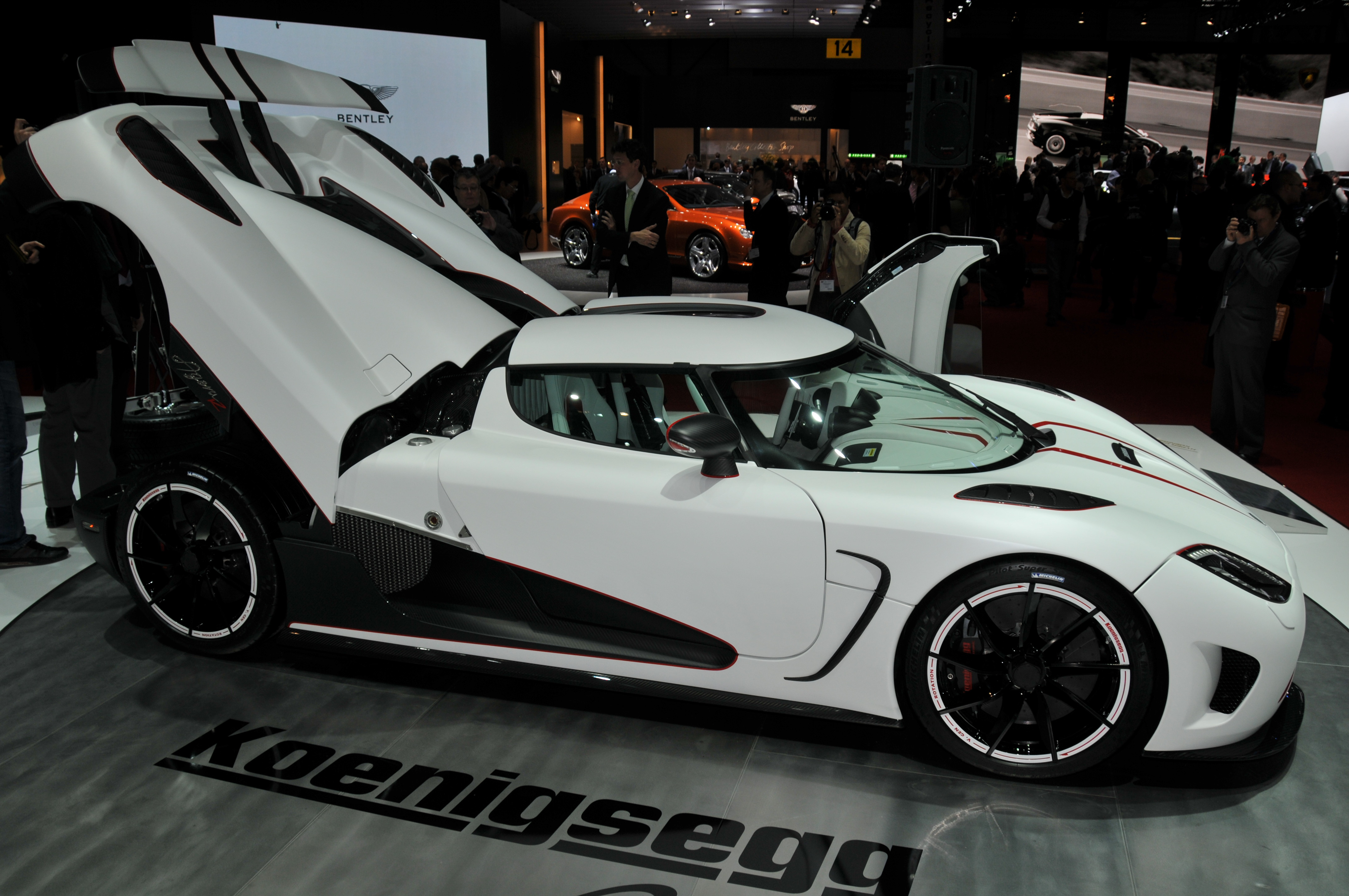 The Agera R was presented at the 2011 Geneva Motor Show